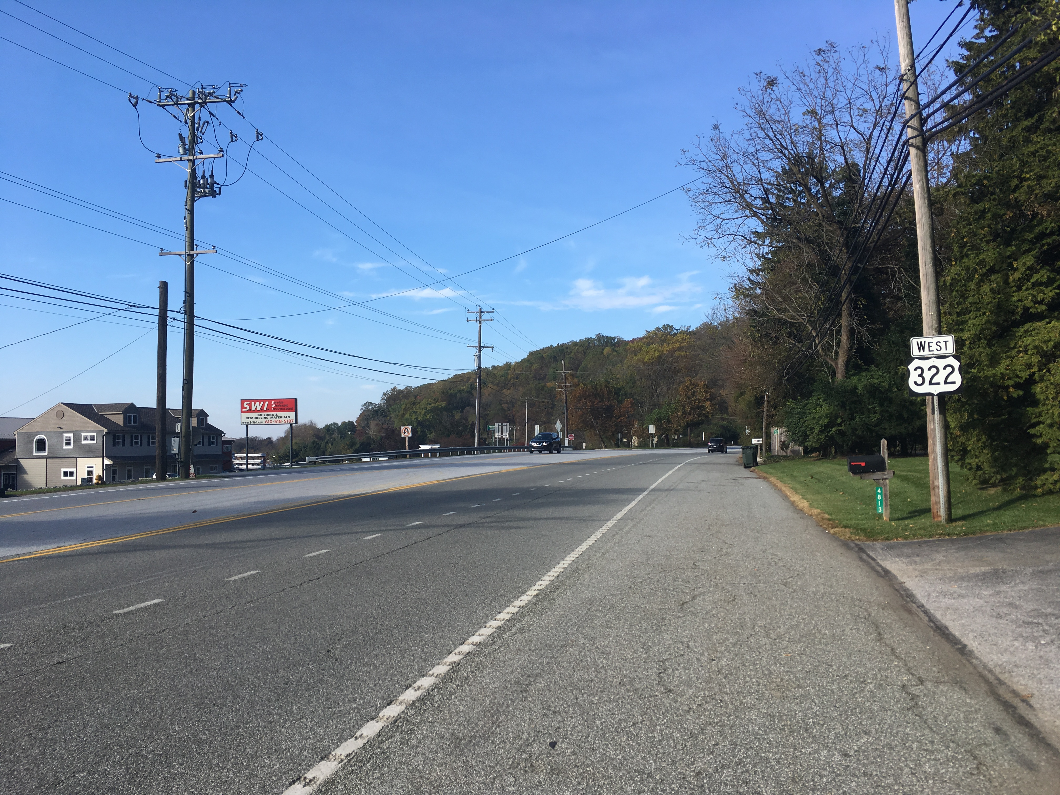 Westbound U.S. Route 322 (Horseshoe Pike) past the interchange with U.S. Route 30 in Caln Township, Pennsylvania